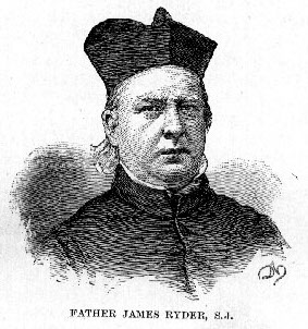 Rev. James A. Ryder, S.J., president of Georgetown University